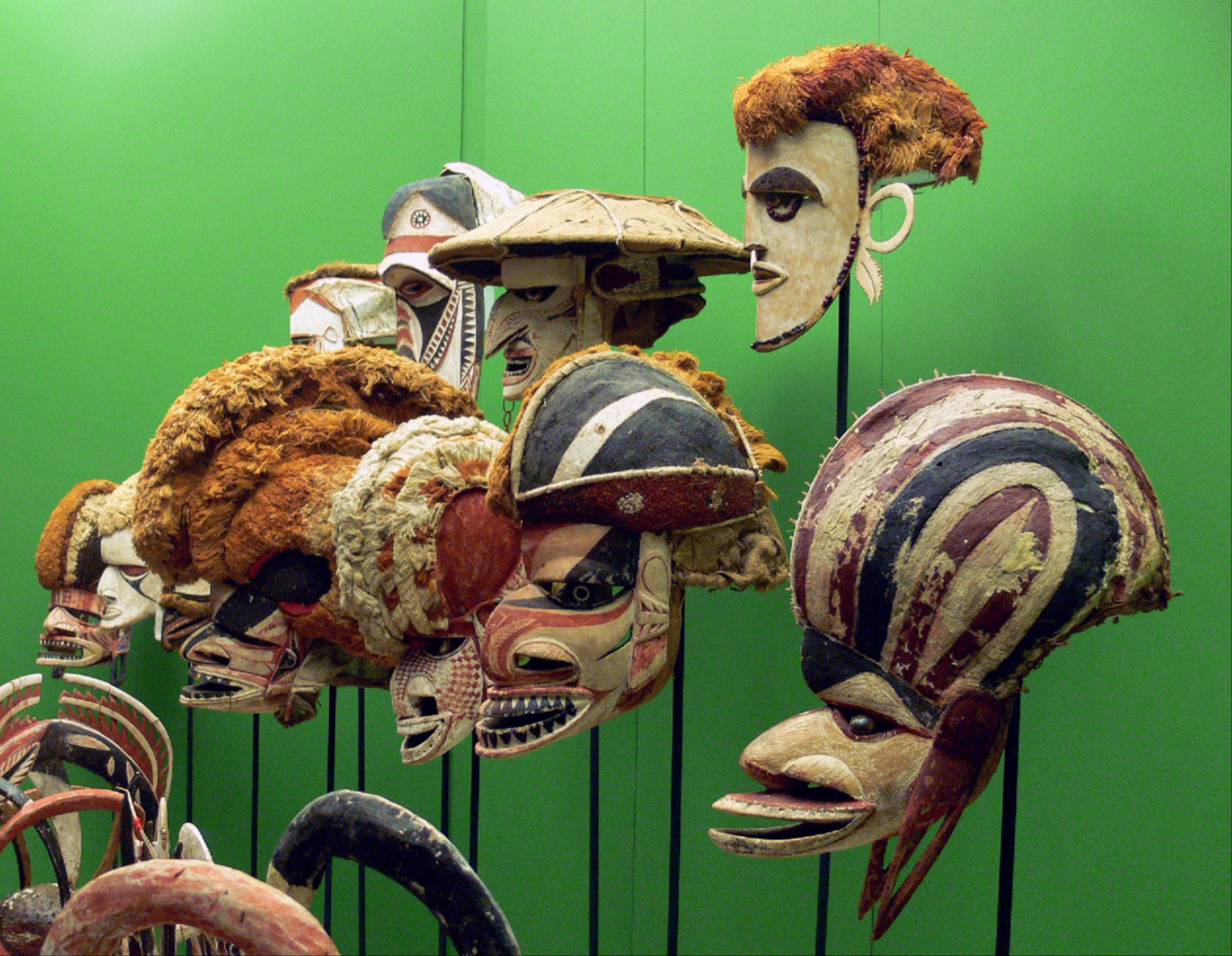 Masks from New Ireland; South Seas Department, Ethnological Museum, Berlin, Germany